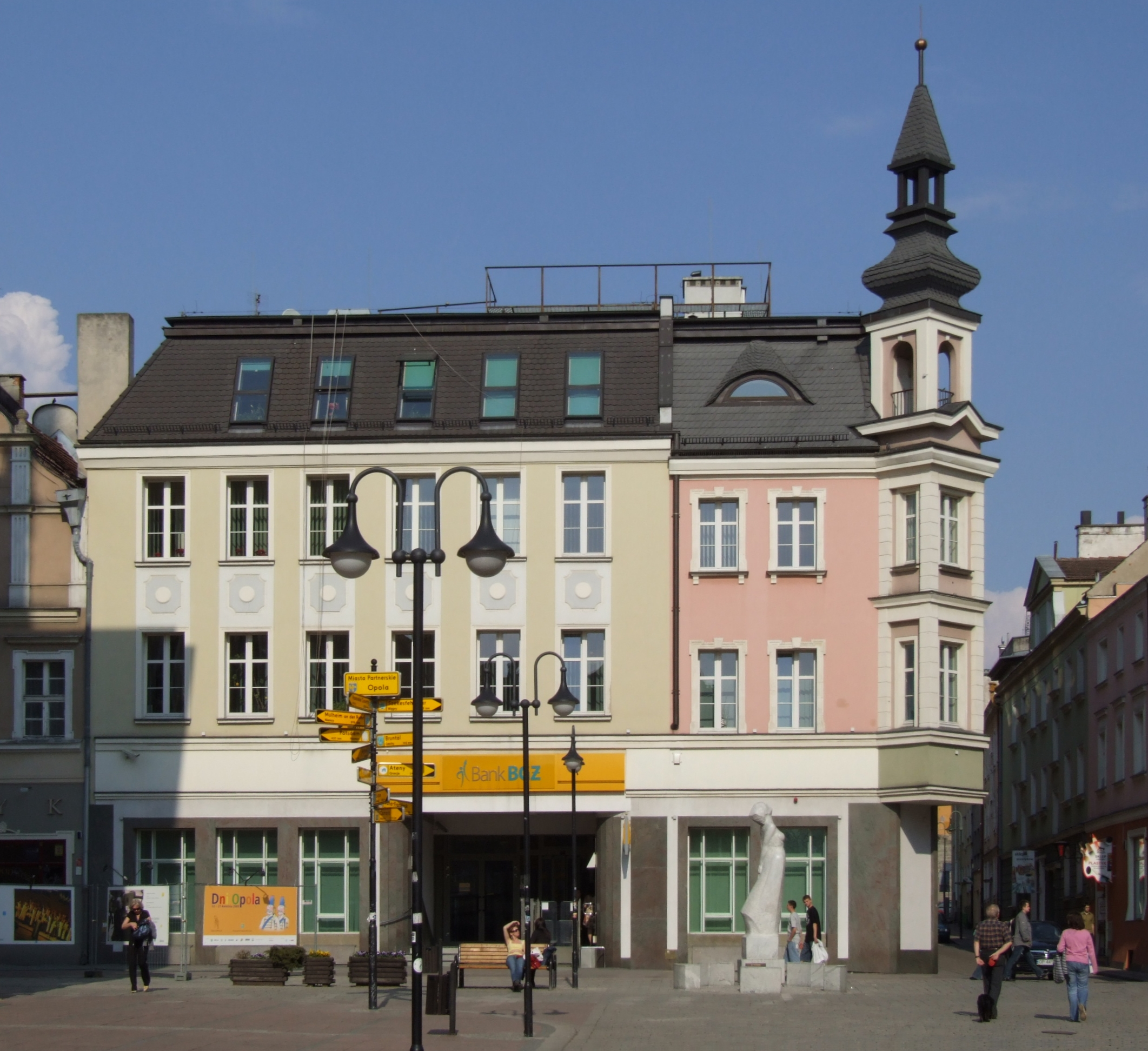 House (bank) in Opole (Uopole, Oppeln), Upper Silesia